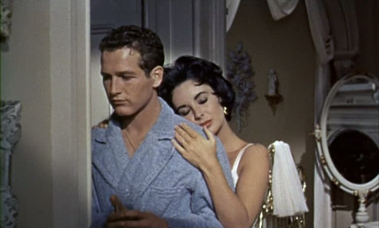 Screenshot of Elizabeth Taylor and Paul Newman from the trailer for the film Cat on a Hot Tin Roof (film)